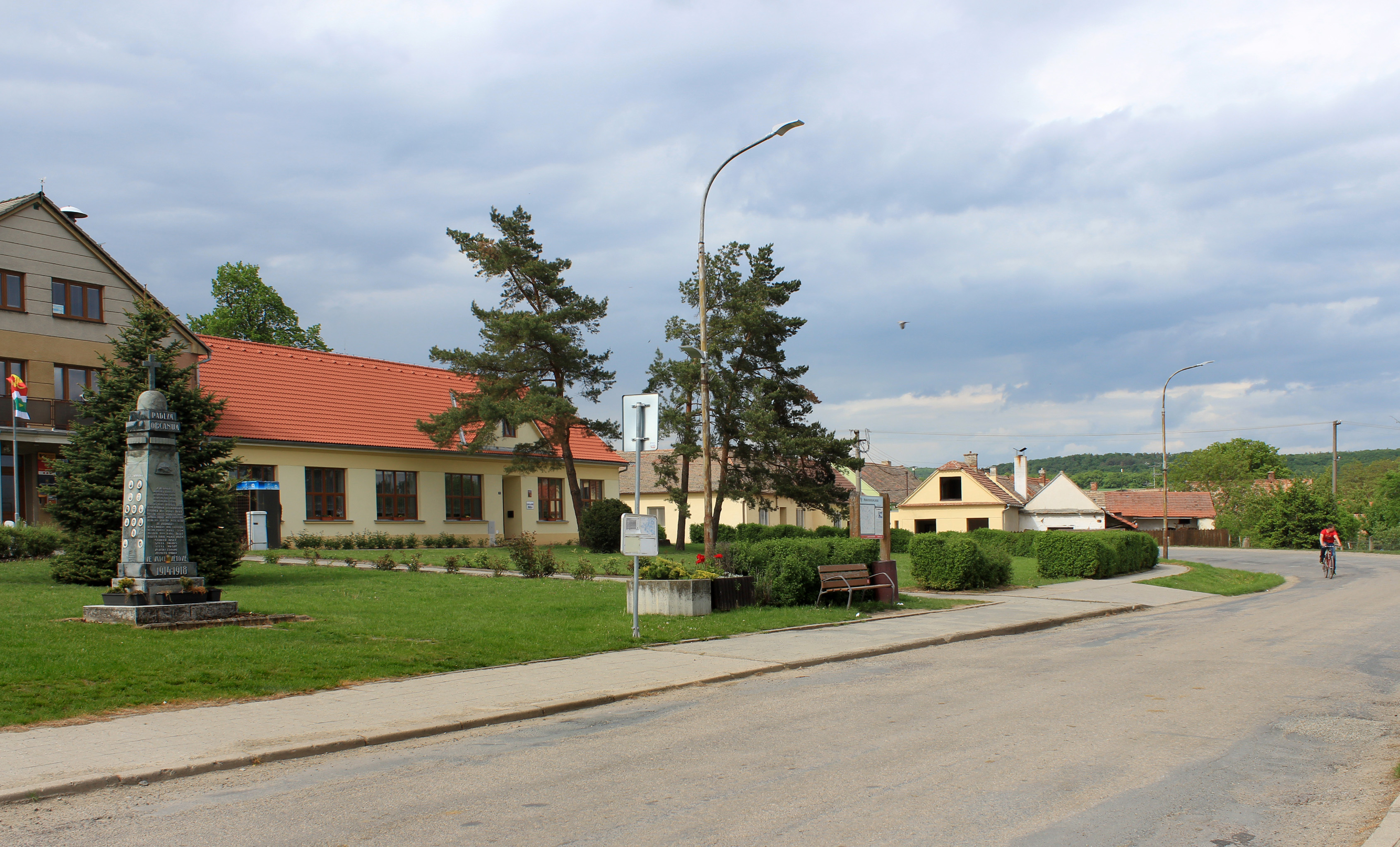 Common in Vedrovice, Czech Republic.